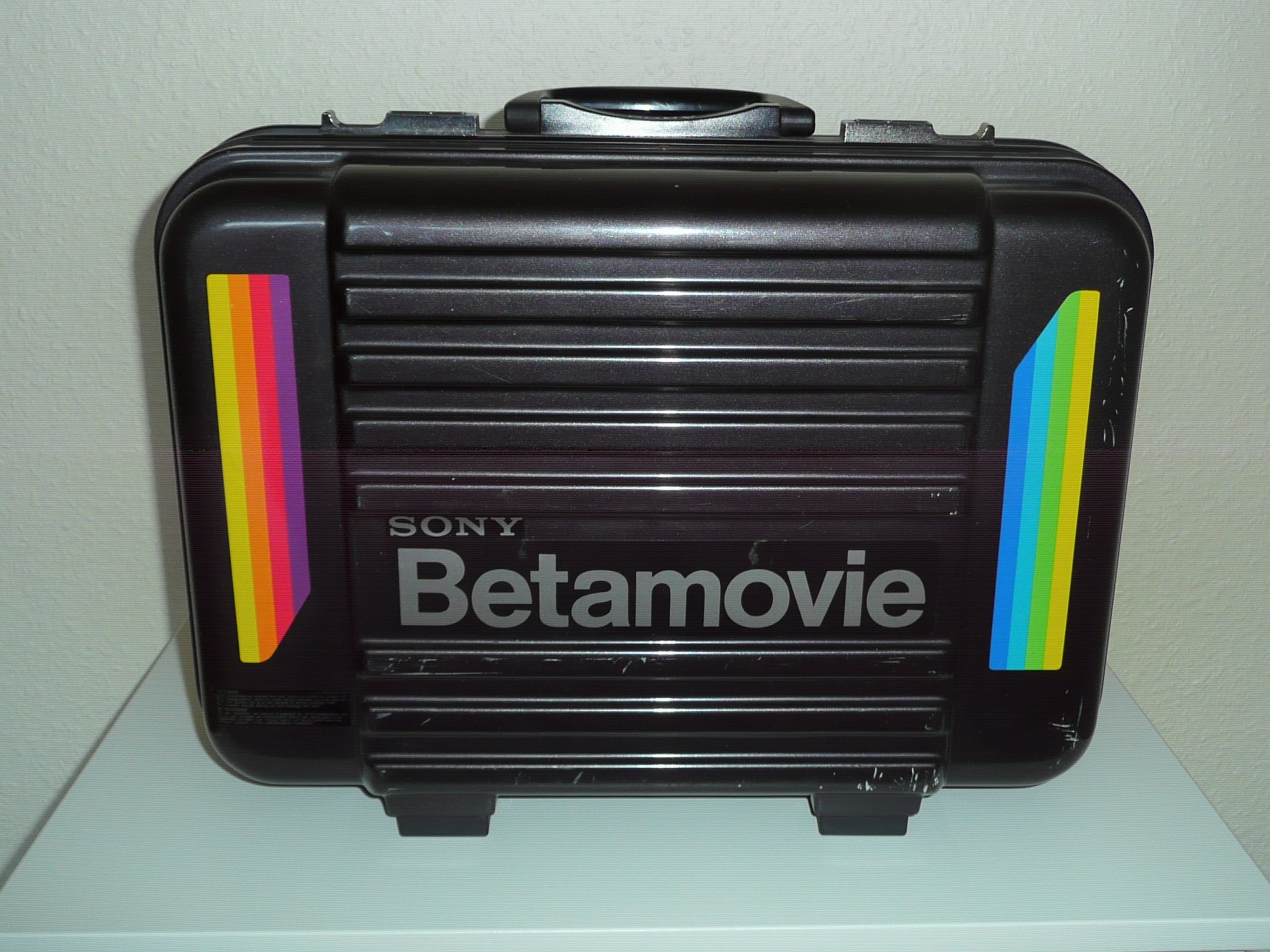 Hard shell carrying case for Sony BMC-100P.